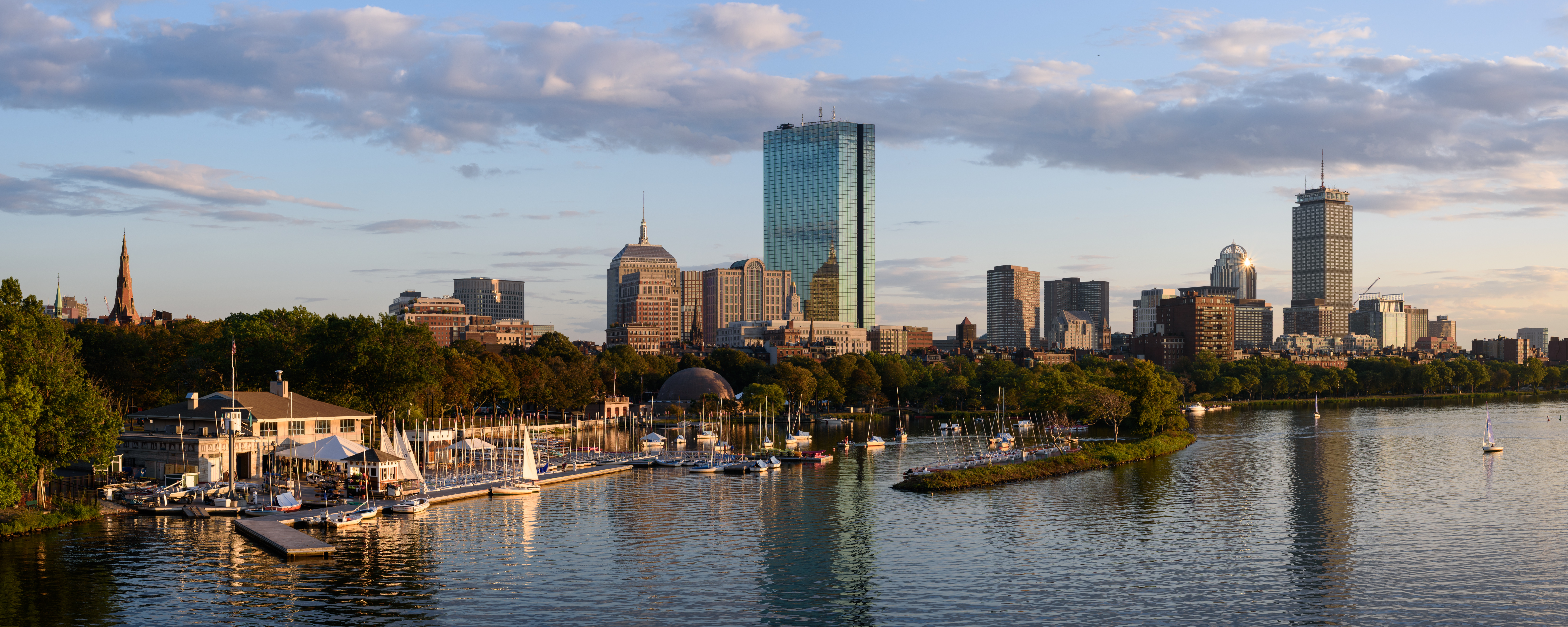 Two-segment panorama of Back Bay skyline from Longfellow Bridge, Boston.